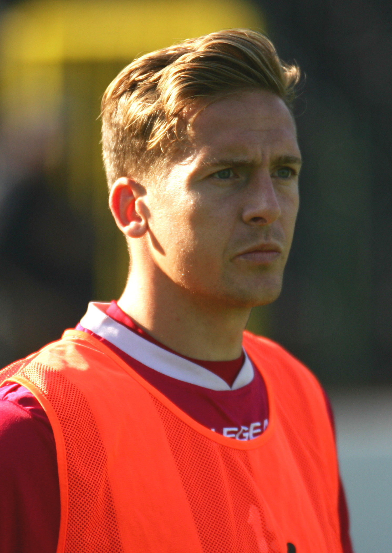 Brian Howard playing for CSKA Sofia in 2013.